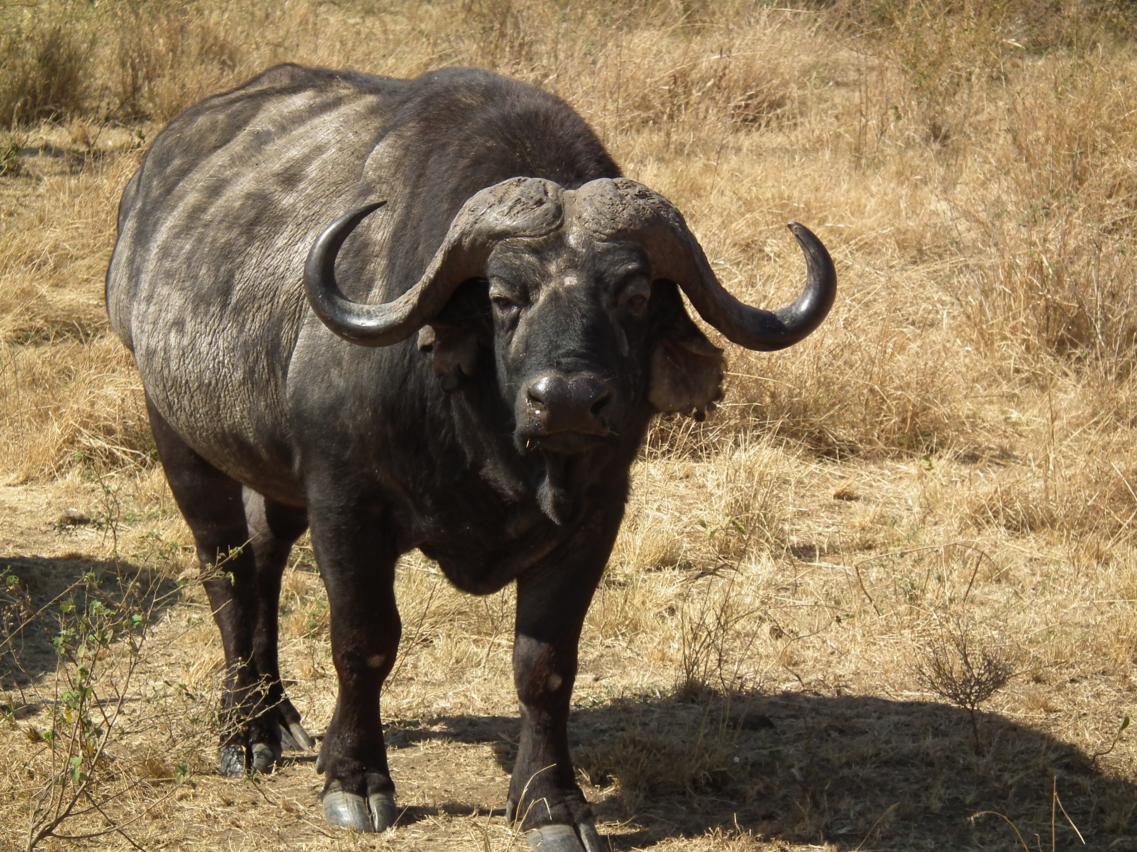 The African buffalo, affalo, M'bogo or Cape buffalo (Syncerus caffer) is a large African bovine. Photo taken in Tanzania